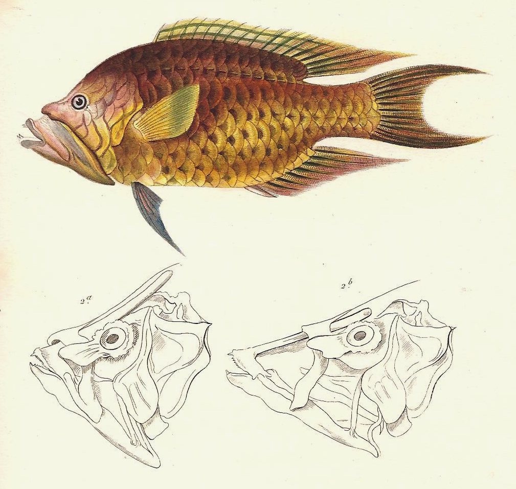 The sling-jaw wrasse, Epibulus insidiator , has the most extreme jaw protrusion of all fishes